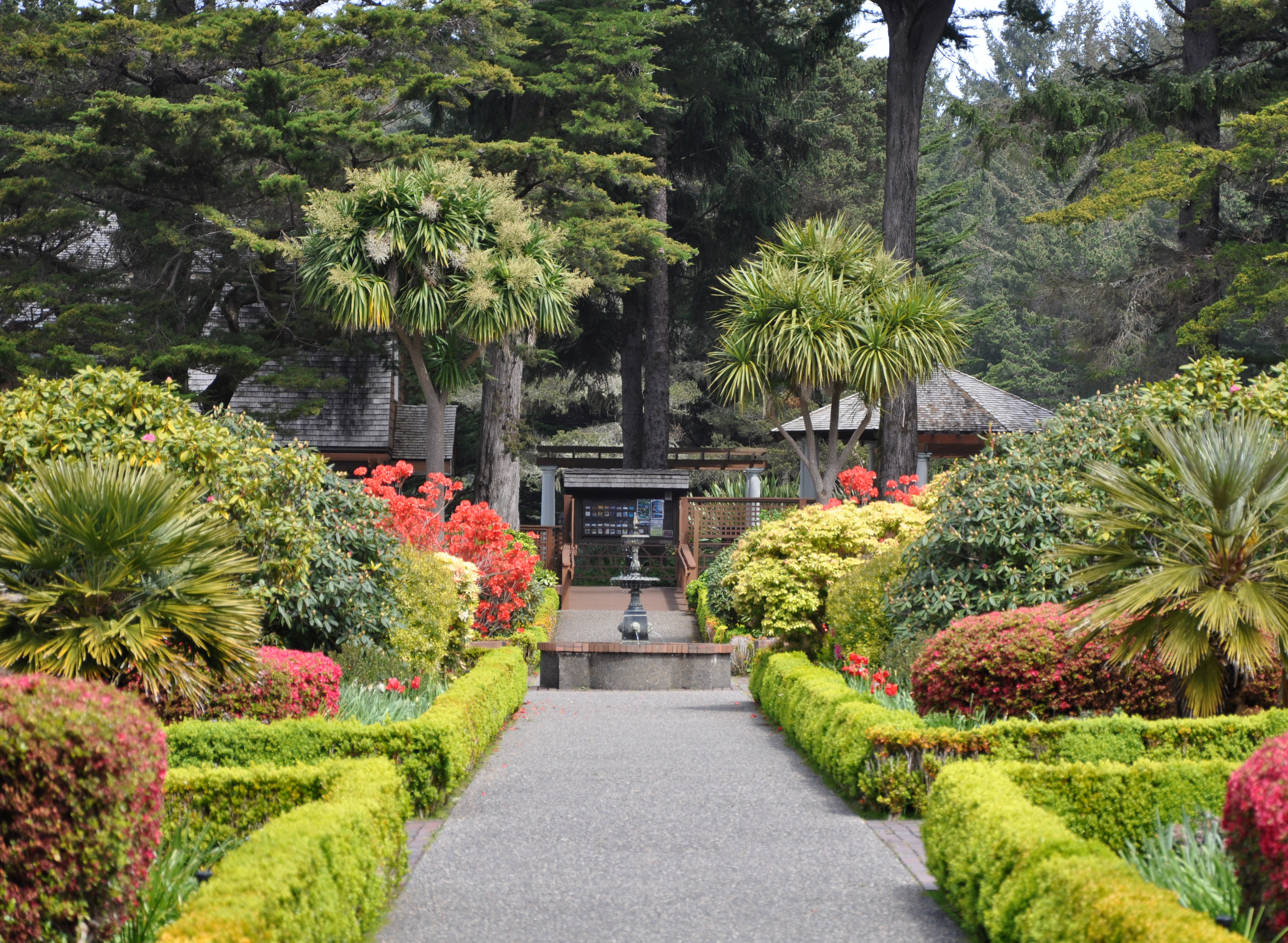 Formal garden at Shore Acres State Park along the Pacific coast of Oregon